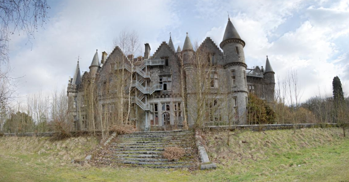 The back side of Castle Miranda.